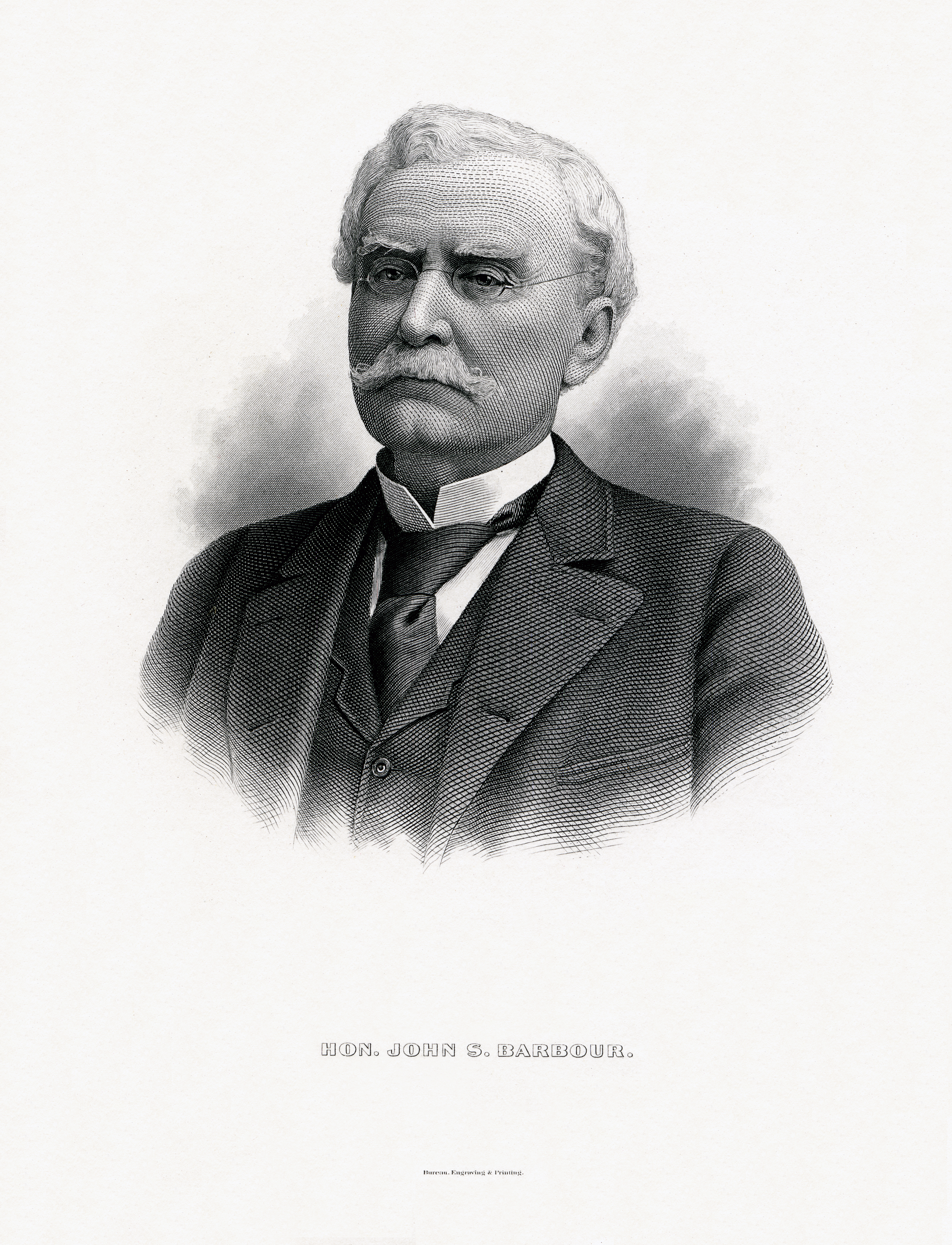 Bureau of Engraving and Printing engraved portrait of John S. Barbour, Jr..